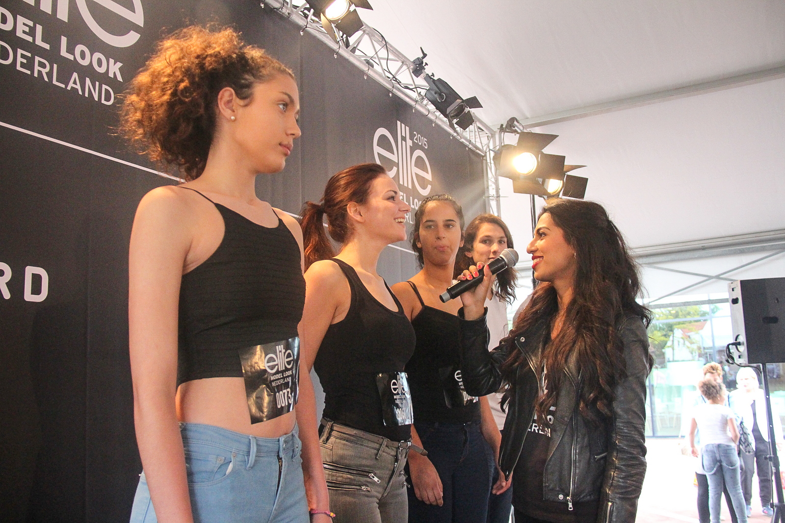 Models ready for the catwalk elite model contest Spijkenisse